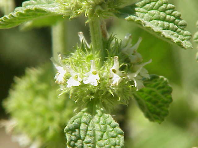 Species: Marrubium vulgare Family: Labiatae Image No. 1